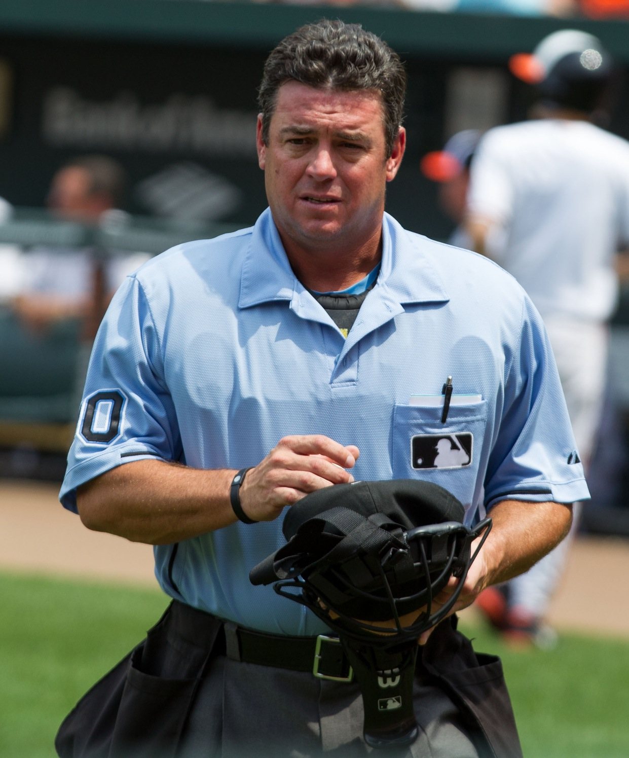 MLB umpire Rob Drake - Indians at Orioles July 1, 2012